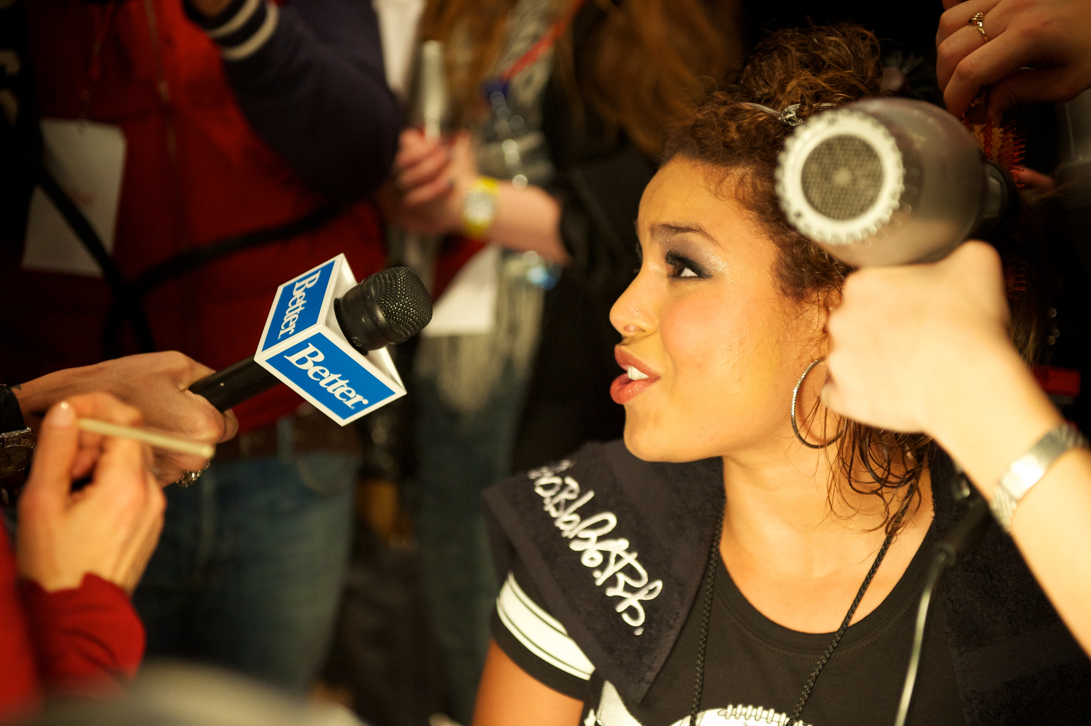 The Heart Truth® is a national awareness campaign for women about heart disease sponsored by the National Heart, Lung, and Blood Institute (NHLBI), part of the National Institutes of Health, U.S. Department of Health and Human Services (HHS). The Red Dress®, introduced by the NHLBI in 2002, is the national symbol for women and heart disease awareness. Visit for information on women and heart disease. Photographer: Tim Lundin ~ ~ Photographer: Tim Lundin ~ ~ ®, TM The Heart Truth, its logo and The Red Dress are trademarks of HHS. Participation by Mercedes-Benz Fashion Week, Diet Coke, Swarovski, Tylenol, St. Joseph's Aspirin, Bobbi Brown, and Brian Atwood does not imply endorsement by HHS.